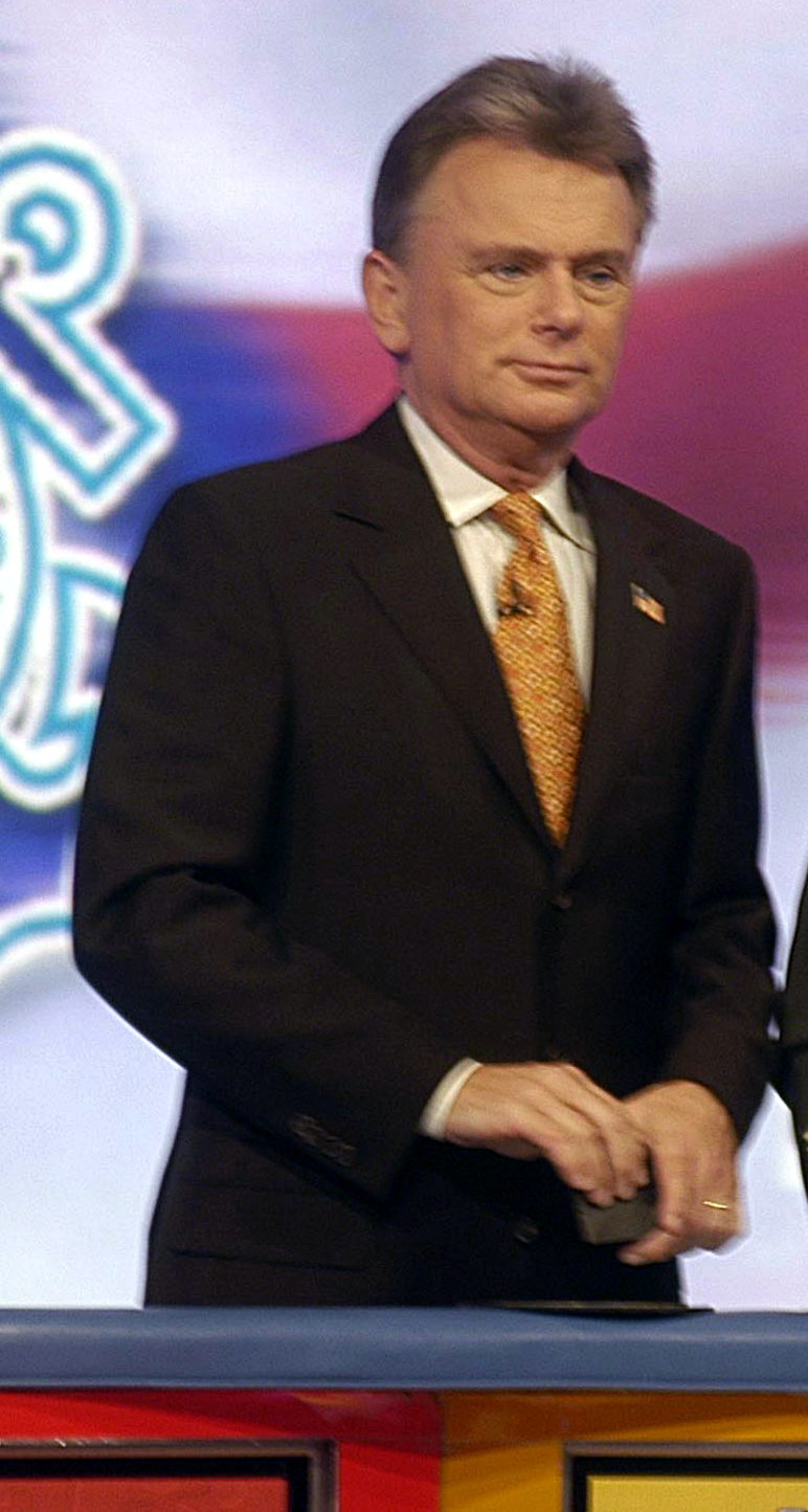 060208-N-3153C-088 Culver City, Calif. - Television game show “Wheel of Fortune” hosted military members during a recent taping in support of the Armed Forces. Service members from various branches of the U.S. military participated in the show that will air the week of April 3, 2006.